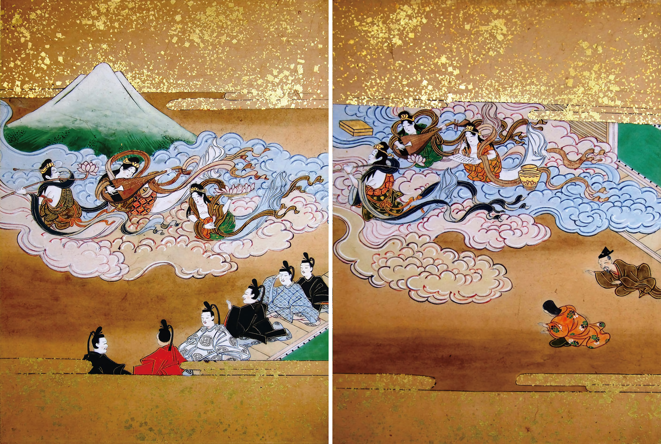 Last scene of Taketori Monogatari